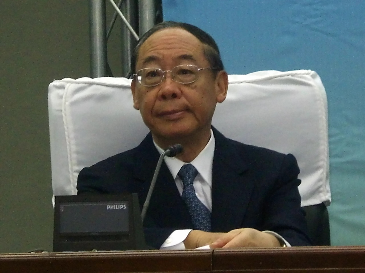 Summer Deaflympics 2009 press conference: Fredrick Chien, chairman of Cathay Life Charity Foundation.